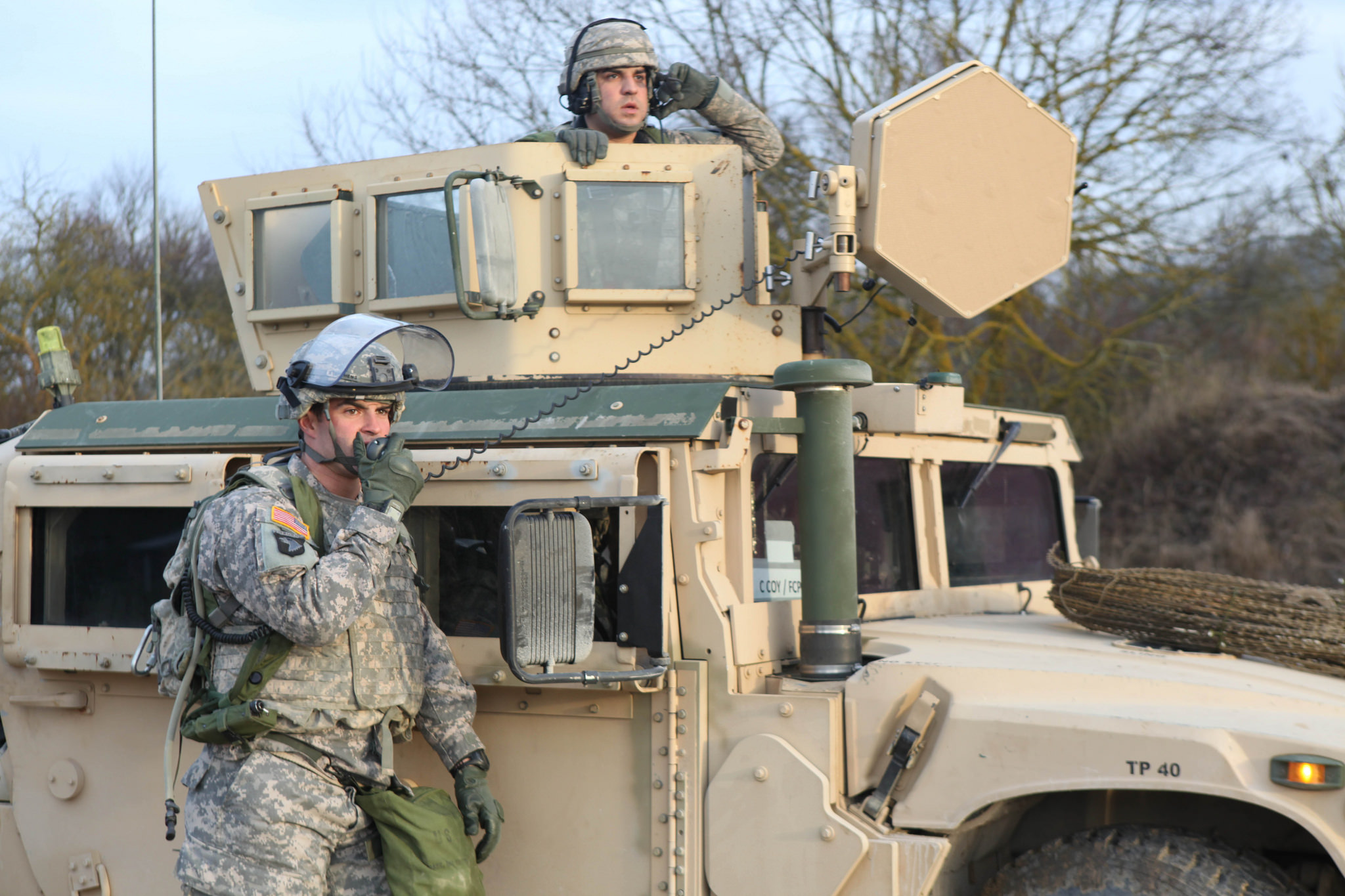 A U.S. Soldier assigned to the 38th Cavalry Regiment talks on the radio during the Kosovo Force (KFOR) 18 Mission Rehearsal Exercise (MRE) at the Hohenfels Training Area in Germany Jan. 19, 2014. The KFOR 18 MRE was designed to prepare the U.S. Army's 504th Battlefield Surveillance Brigade and multinational forces for operations in support of NATO in Kosovo.